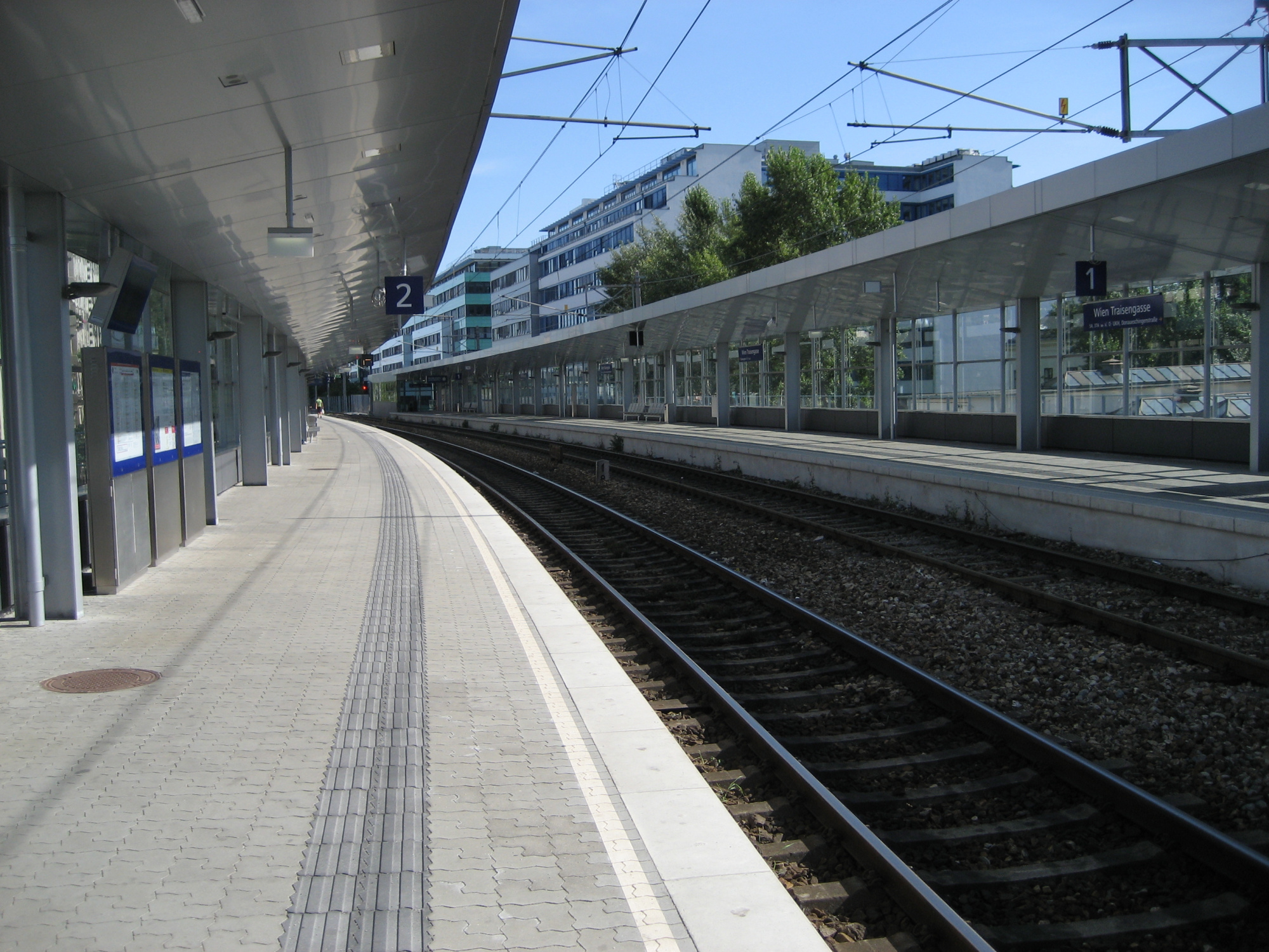 Wien Traisengasse train station in Vienna, Austria